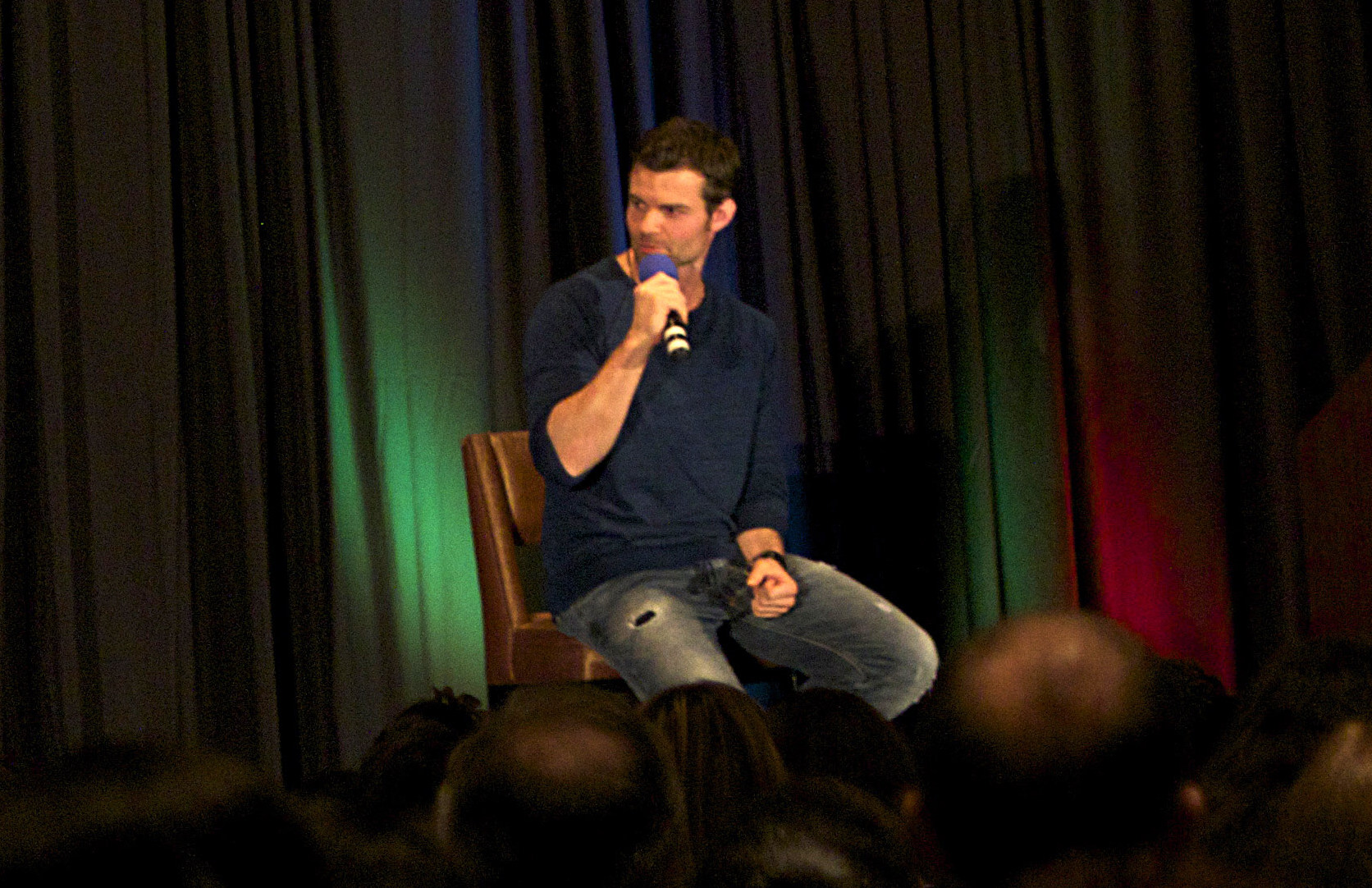 Daniel GIllies, Vampire Diaries Convenetion NJ, 2014